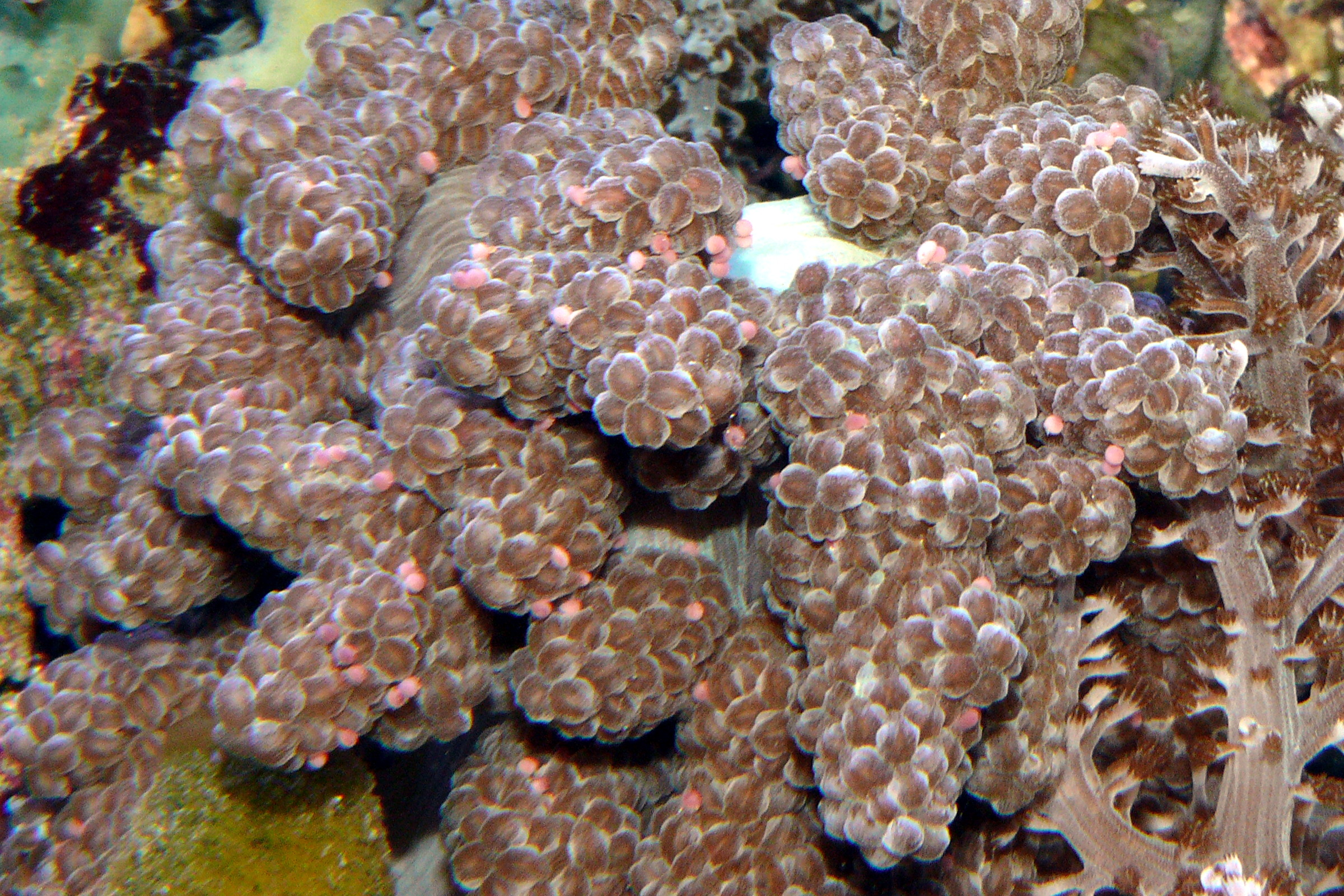 Spawning Capnella sp. (Nephtheidae)